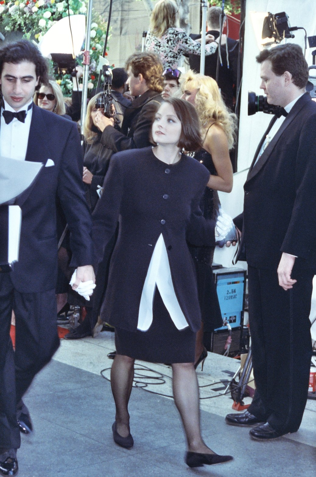 1990 Academy Awards NOTE: Permission granted to copy, publish, broadcast or post any of my photos, but please credit "photo by Alan Light" if you can. Thanks. Scanned from the original 35MM film negative.